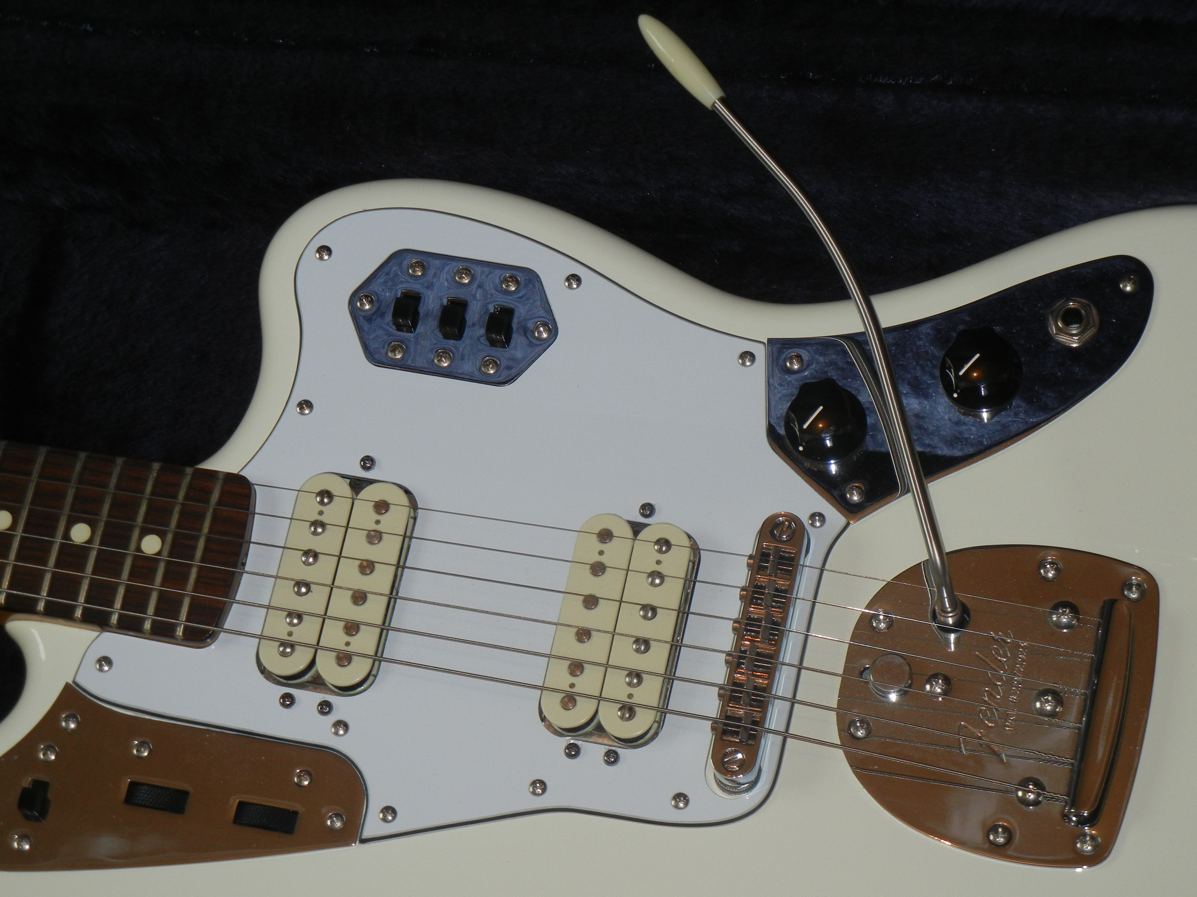 Fender Jaguar Classic Player HH Special Made in Mexico 2010-11